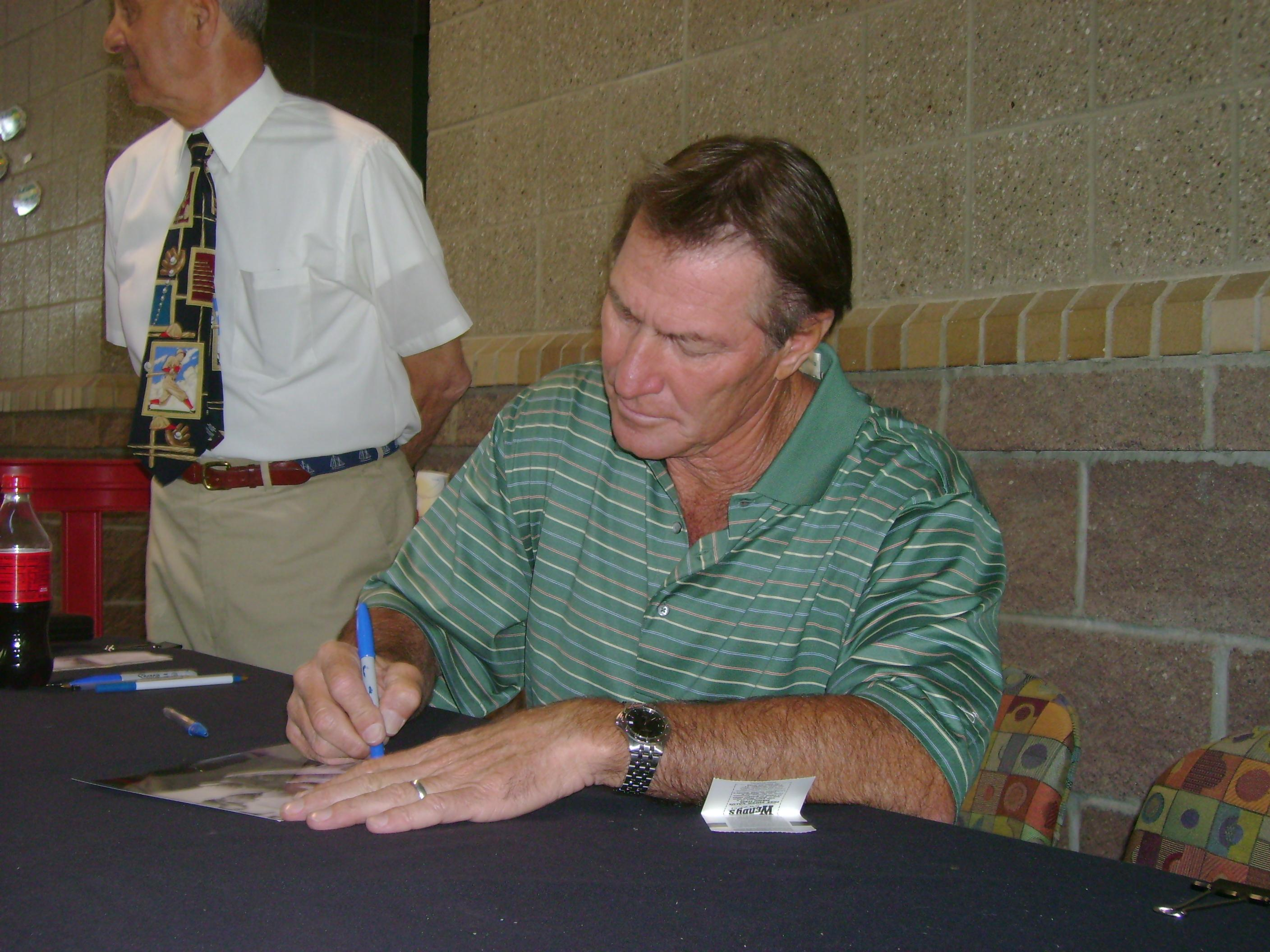 Bobby Grich signs autographs at Frontier Field 02 June 2008